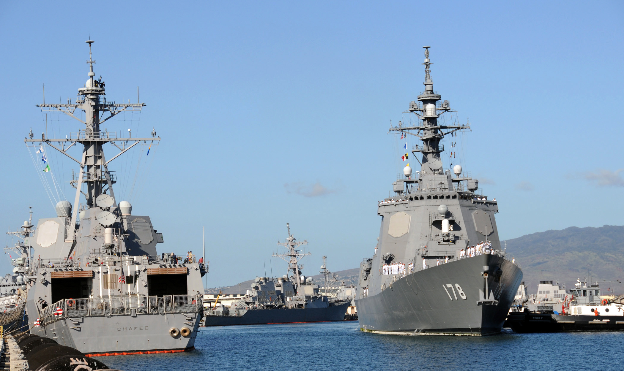 081103-N-9758L-048 PEARL HARBOR (Nov. 3, 2008) The Japan Maritime Self Defense Force guided-missile destroyer JS Ashigara (DDG 178) moves past the Arleigh Burke-class guided-missile destroyer USS Chafee (DDG 90) as she makes her way pier side at Naval Station Pearl Harbor. Ashigara was commissioned on March 13, 2008 and is in Pearl Harbor for a port visit. (U.S. Navy photo by Mass Communication Specialist 2nd Class Michael A. Lantron/Released)